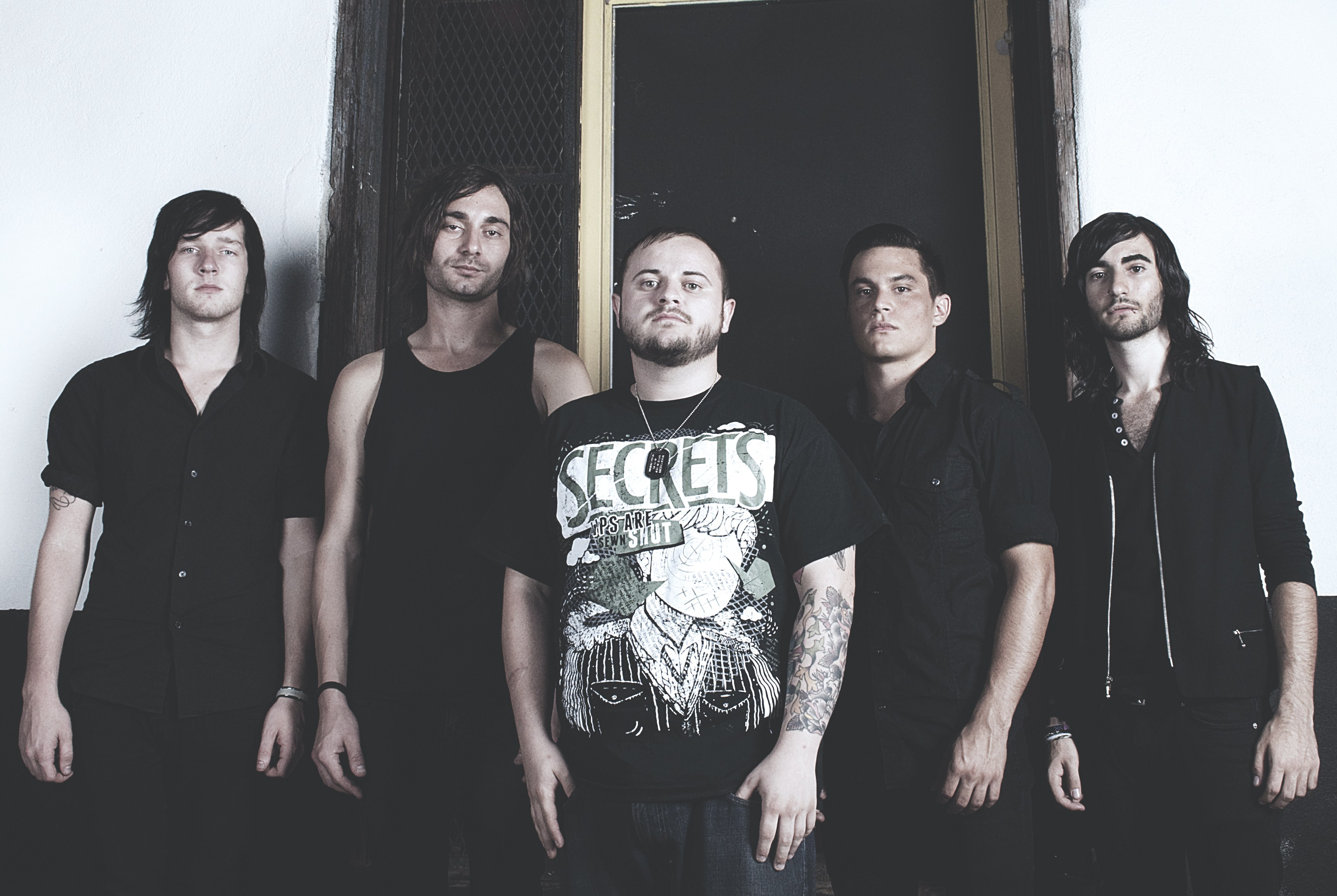 We Are Defiance 2012